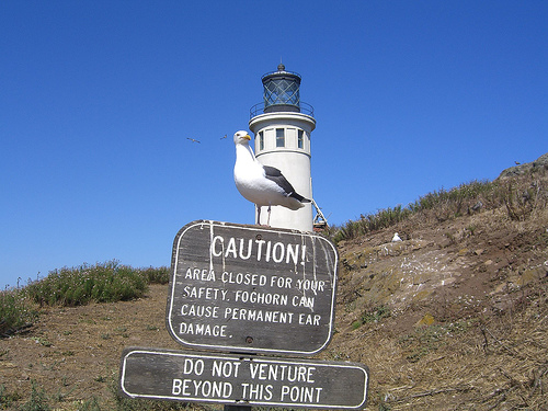 Seagulls dominate the island's sparse wildlife.